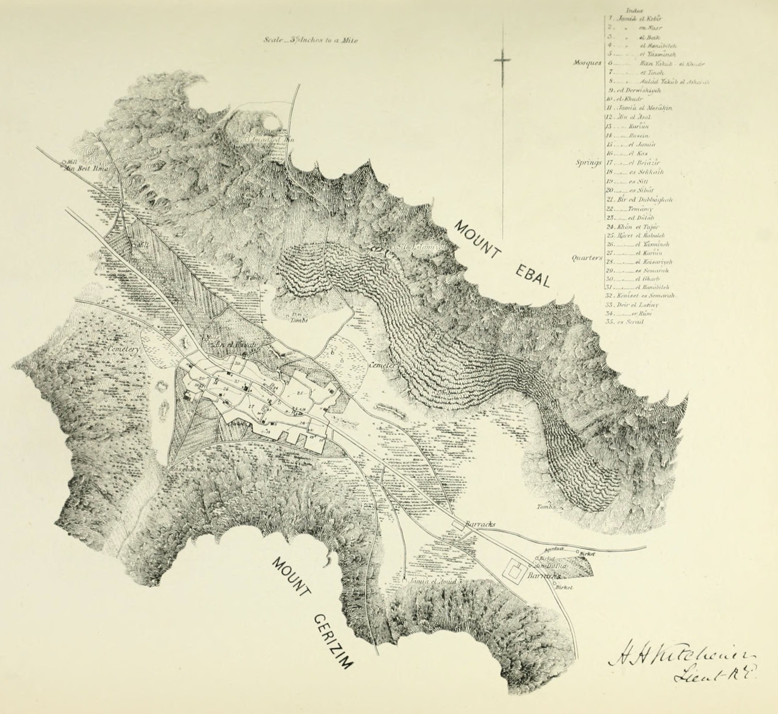 Nablus the 1871-77 Palestine Exploration Fund Survey of Palestine